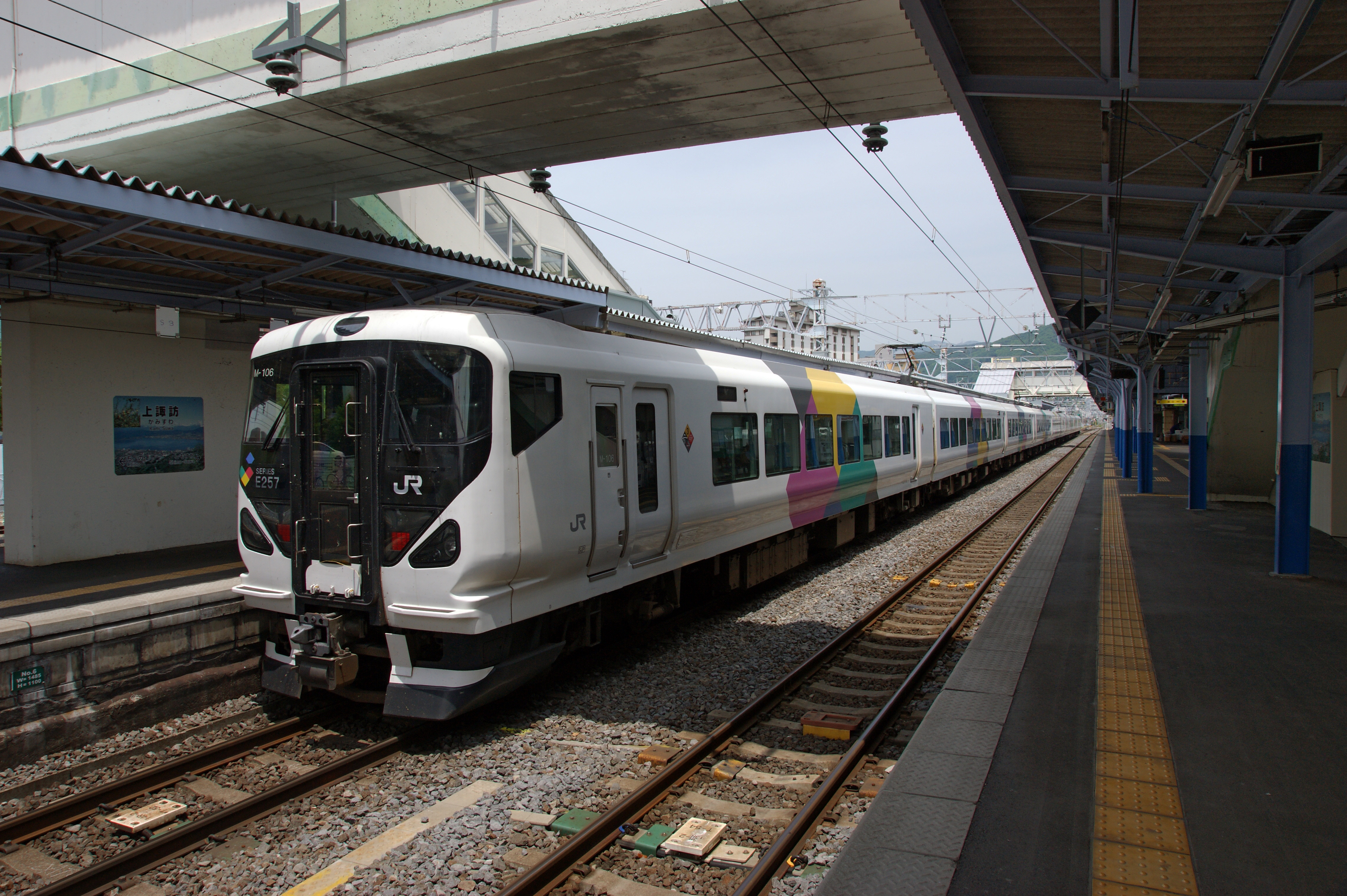 Kamisuwa Station, Suwa, Nagano prefecture, Japan